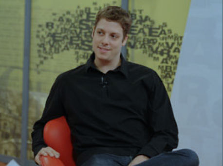 The Brazilian comic actor Fábio Porchat